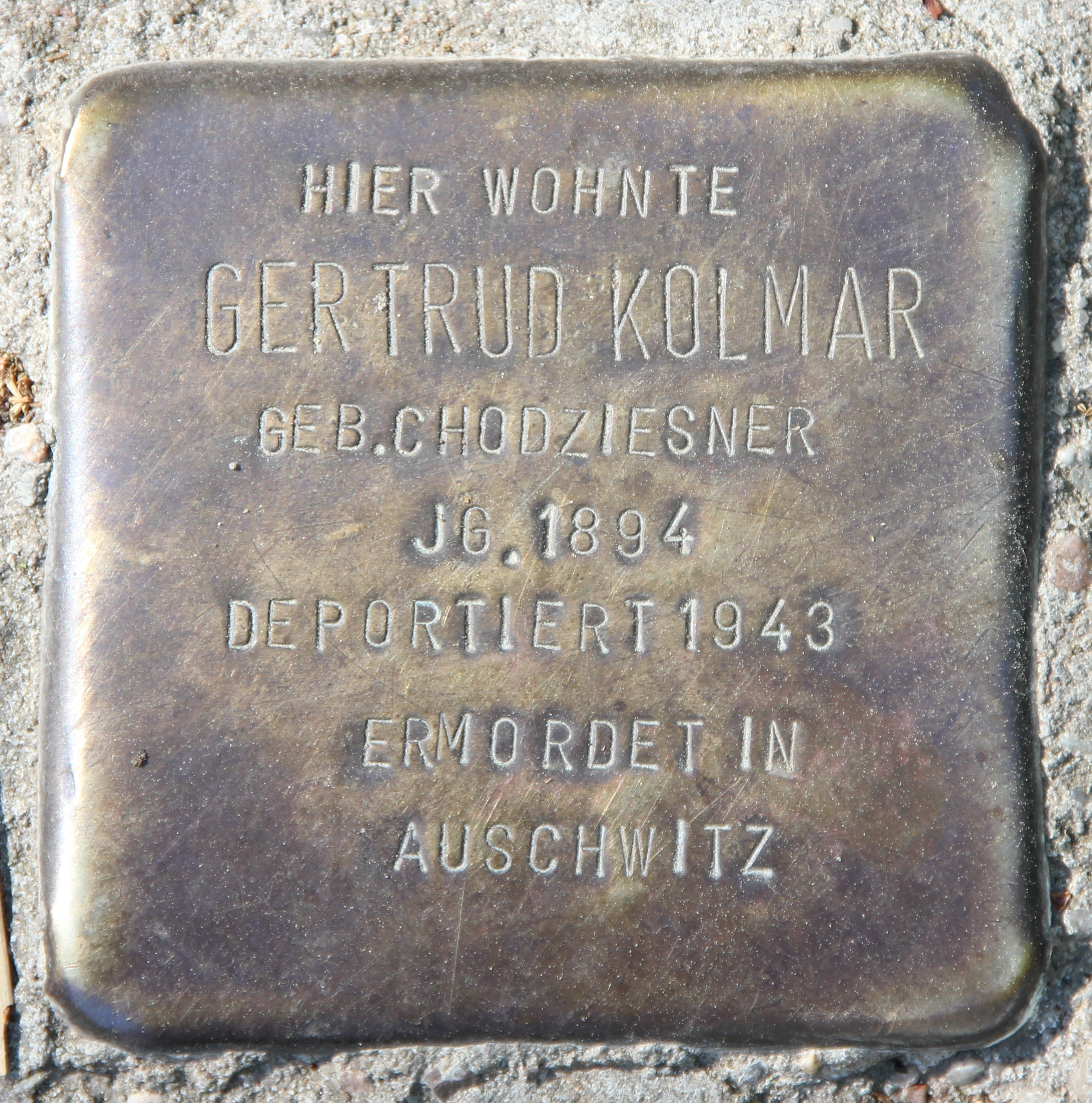 "stumbling block", Gertrud Kolmar, Münchener Straße 18a, Berlin-Schöneberg, Germany Koordinate:52°29′27″N 13°20′29″E / 52.49083°N 13.34139°E